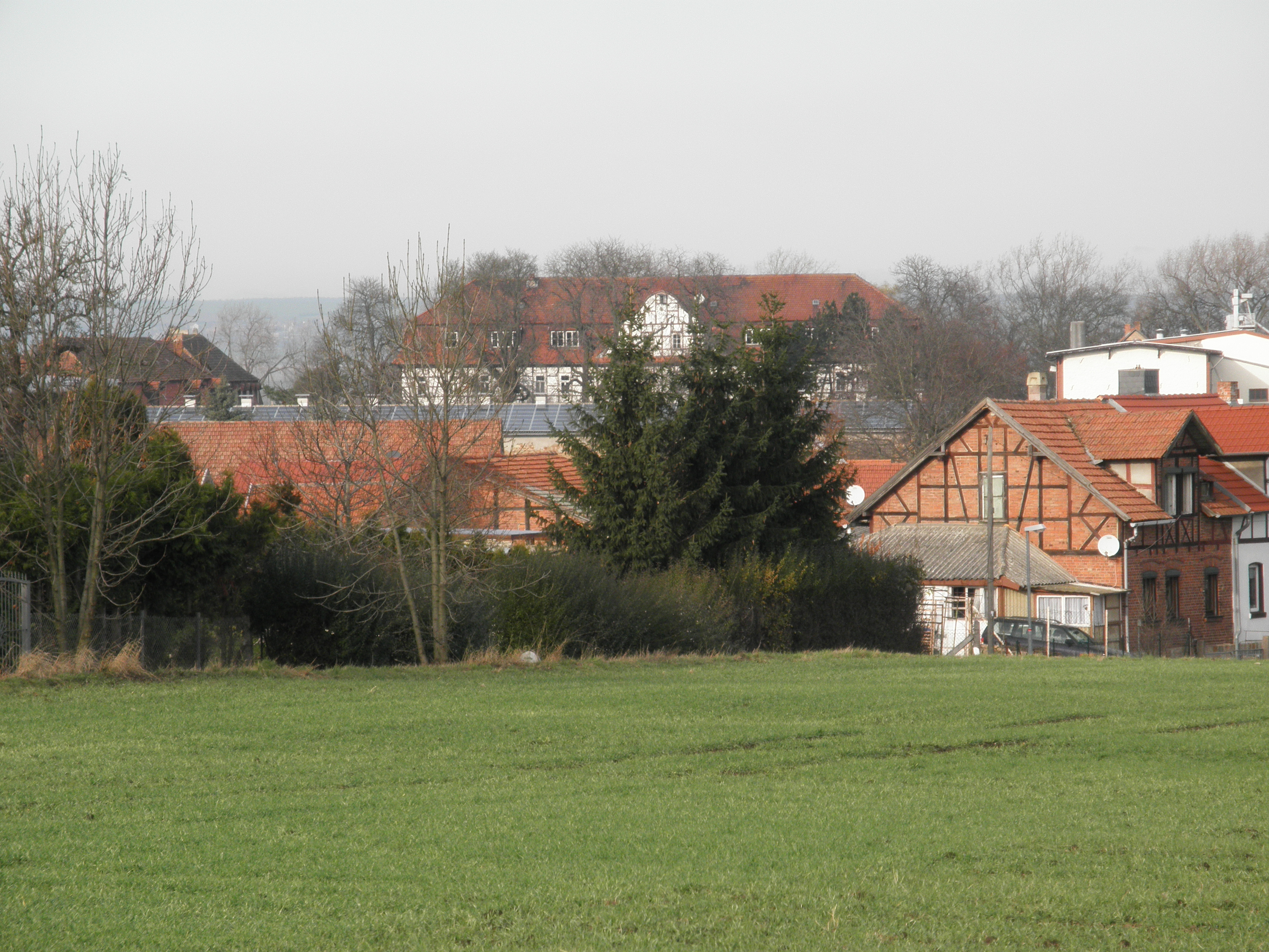 Manor House in Allmenhausen in Thuringia